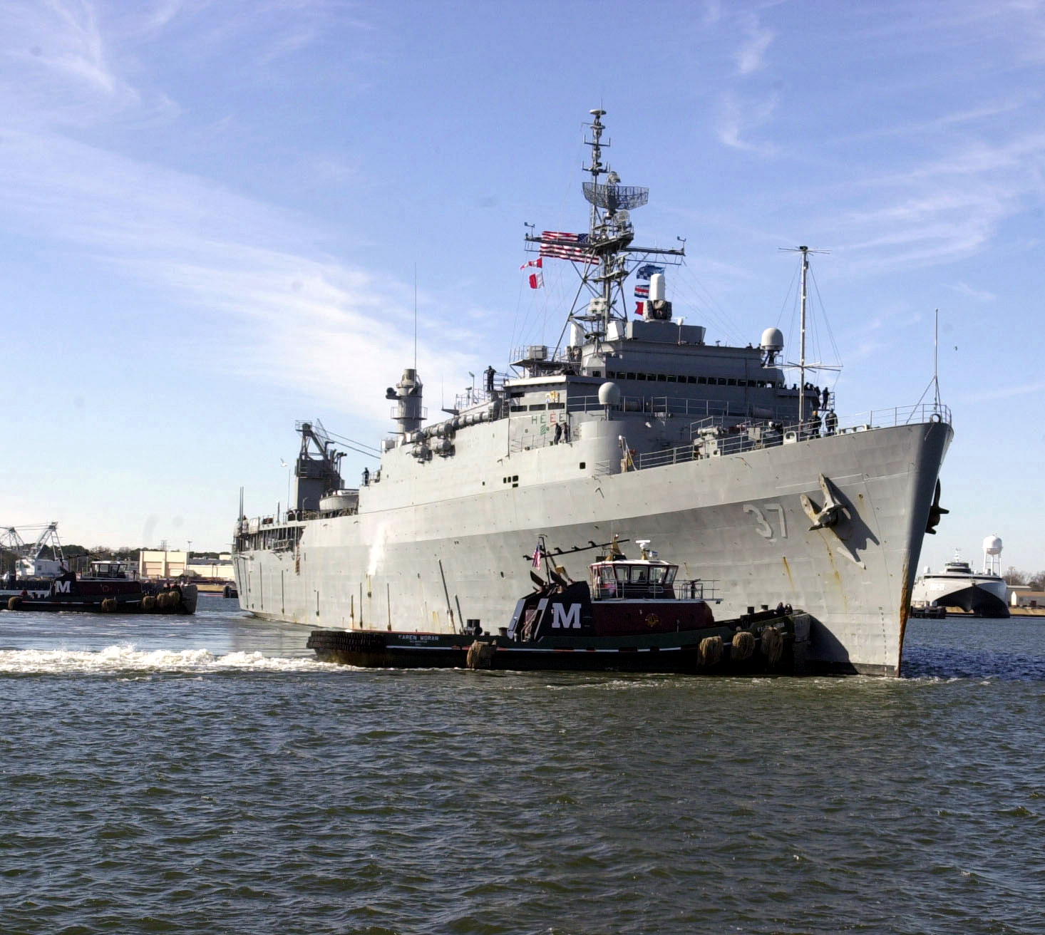 030112-N-3537A-007 Naval Amphibious Base Little Creek, Va. (Jan. 12, 2003) -- The amphibious landing dock ship USS Portland (LSD 37) stands out of the harbor at the Naval Amphibious Base Little Creek, Va. Portland will be part of an amphibious task force which will carry the North Carolina-based 2nd Marine Expeditionary Brigade’s 7,000 Marines on an undisclosed mission. U.S. Navy photo by Journalist 2nd Class Cristina Asencio. (RELEASED)